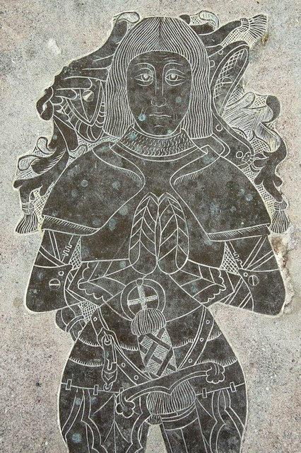 Geoffrey Sherard Geoffrey Sherard died in 1490, was High Sheriff of Rutland, fought in the Wars of the Roses and fathered 14 children .... detail of his tomb brass in St.Mary Magdalene's church